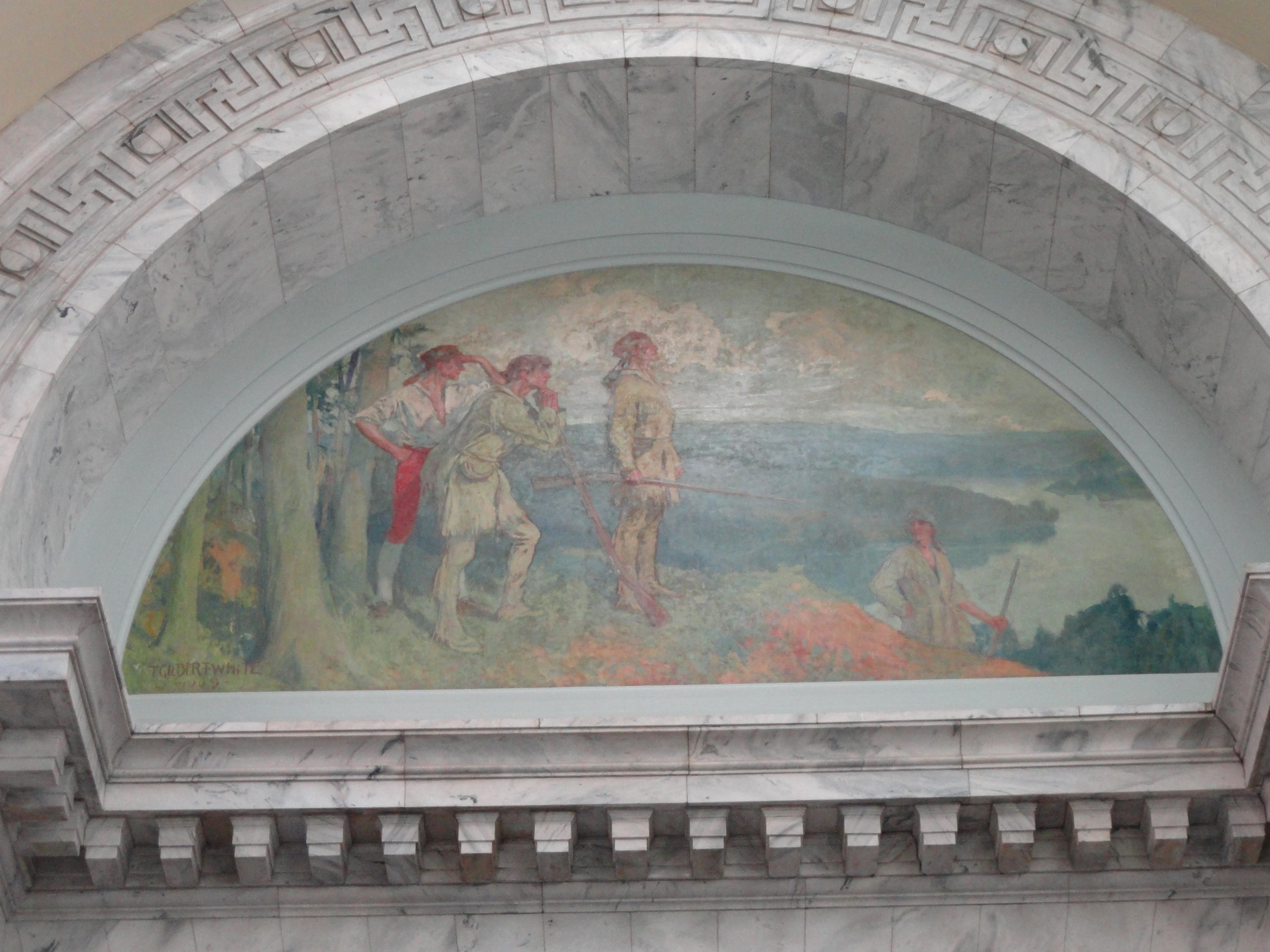 Lunette within the Kentucky State Capitol, Frankfort, Kentucky, USA. Painted by Thomas Gilbert White (1877–1939), and now in the public domain because the artist died more than 70 years ago.